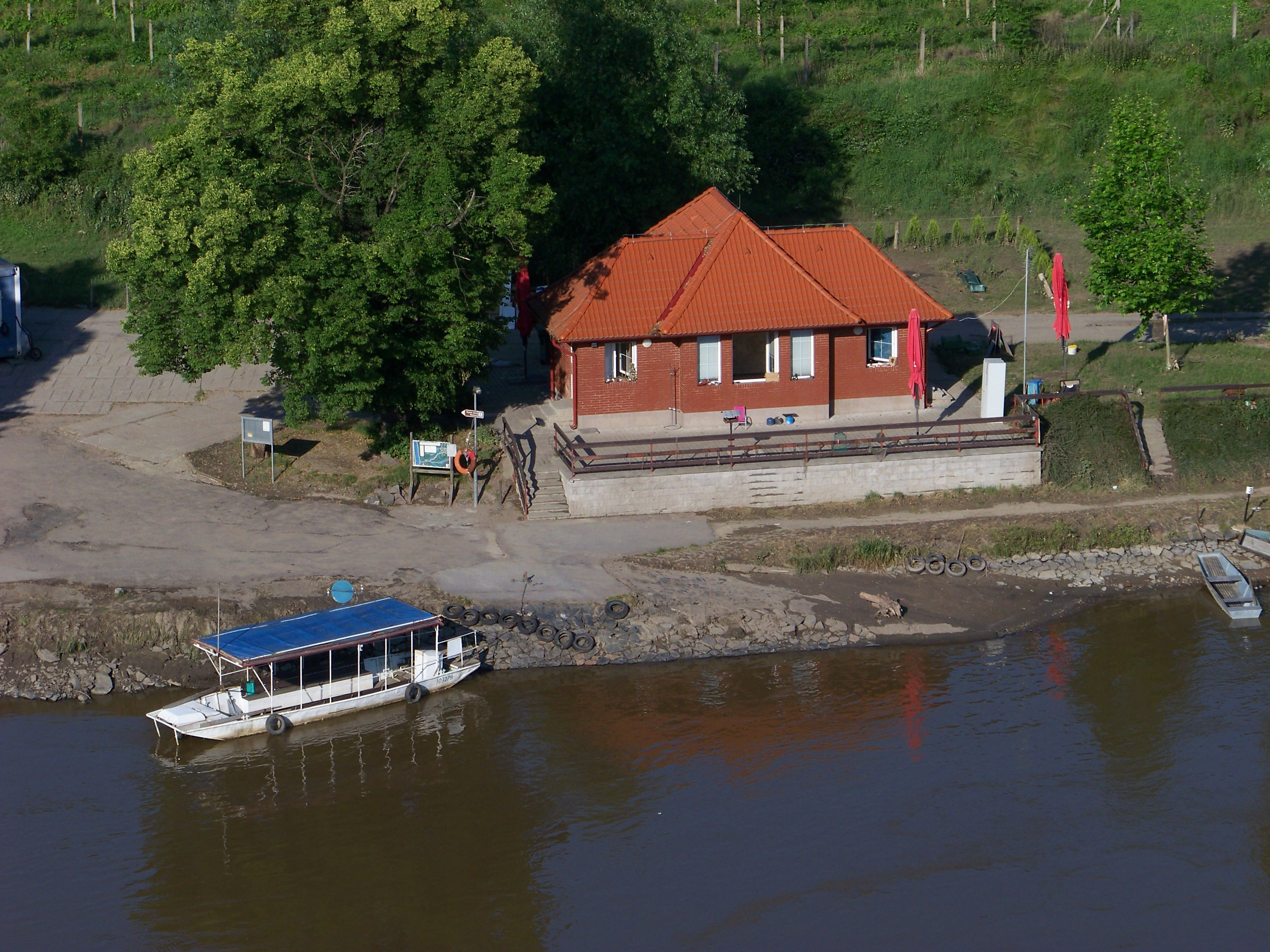 Máslovice-Dol, Prague-East District, Central Bohemian Region. A view from Liběhrad castle in Libčice nad Vltavou. Vltava river with a ferry. - Google Maps - Google Earth